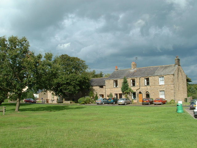 Inglewhite Green. The building to the right was once the Queen's Arms public house.